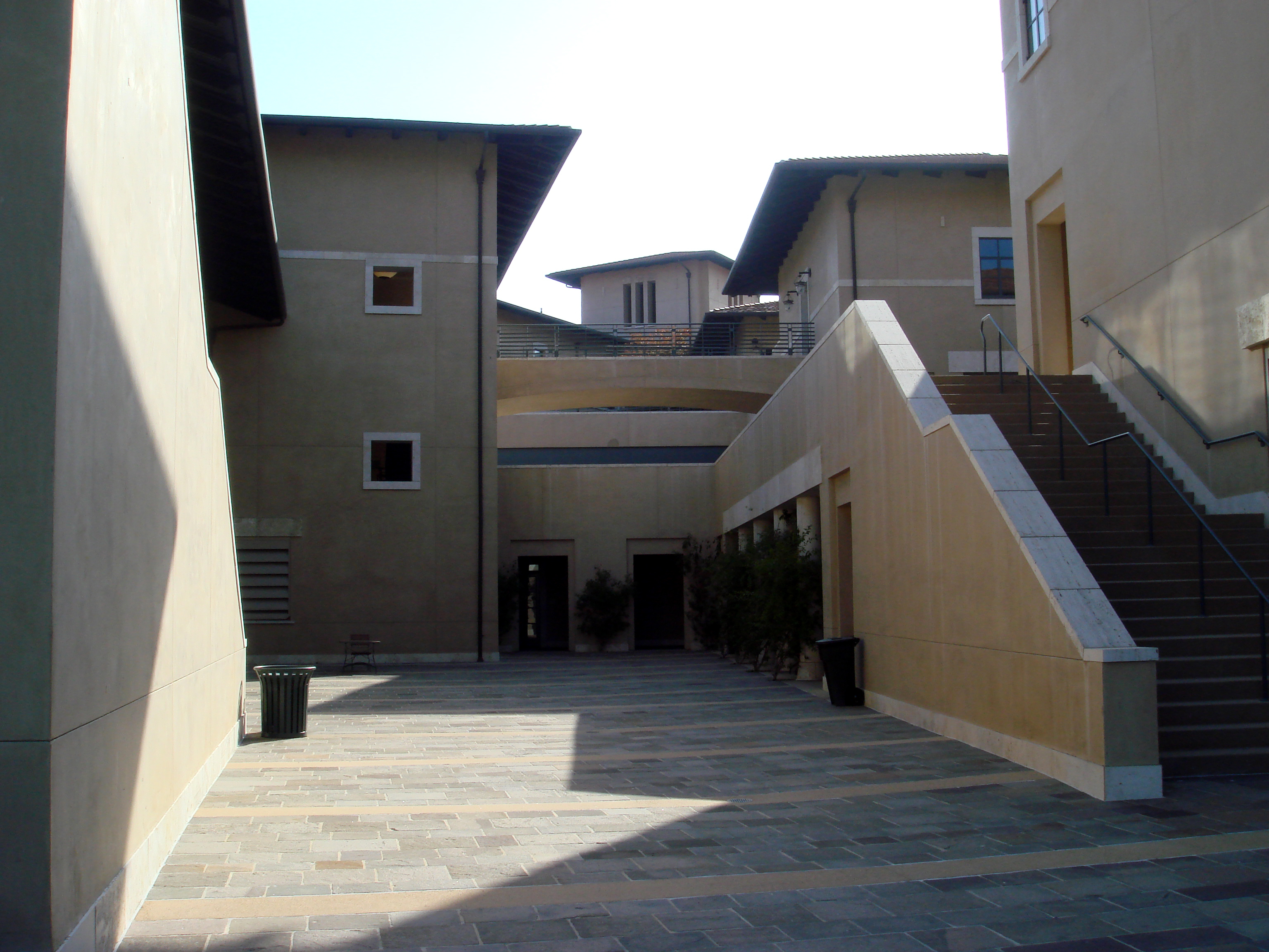 Pauling Hall, Soka University of America in Aliso Viejo, California.